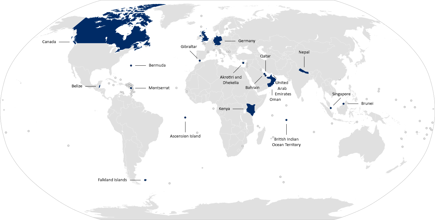 Map of United Kingdom overseas military bases